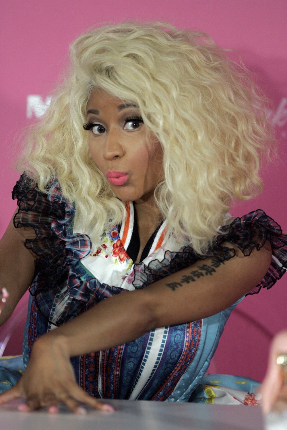 Nicki Minaj Launches Pink Friday Perfume 2012 - Sydney, Australia.